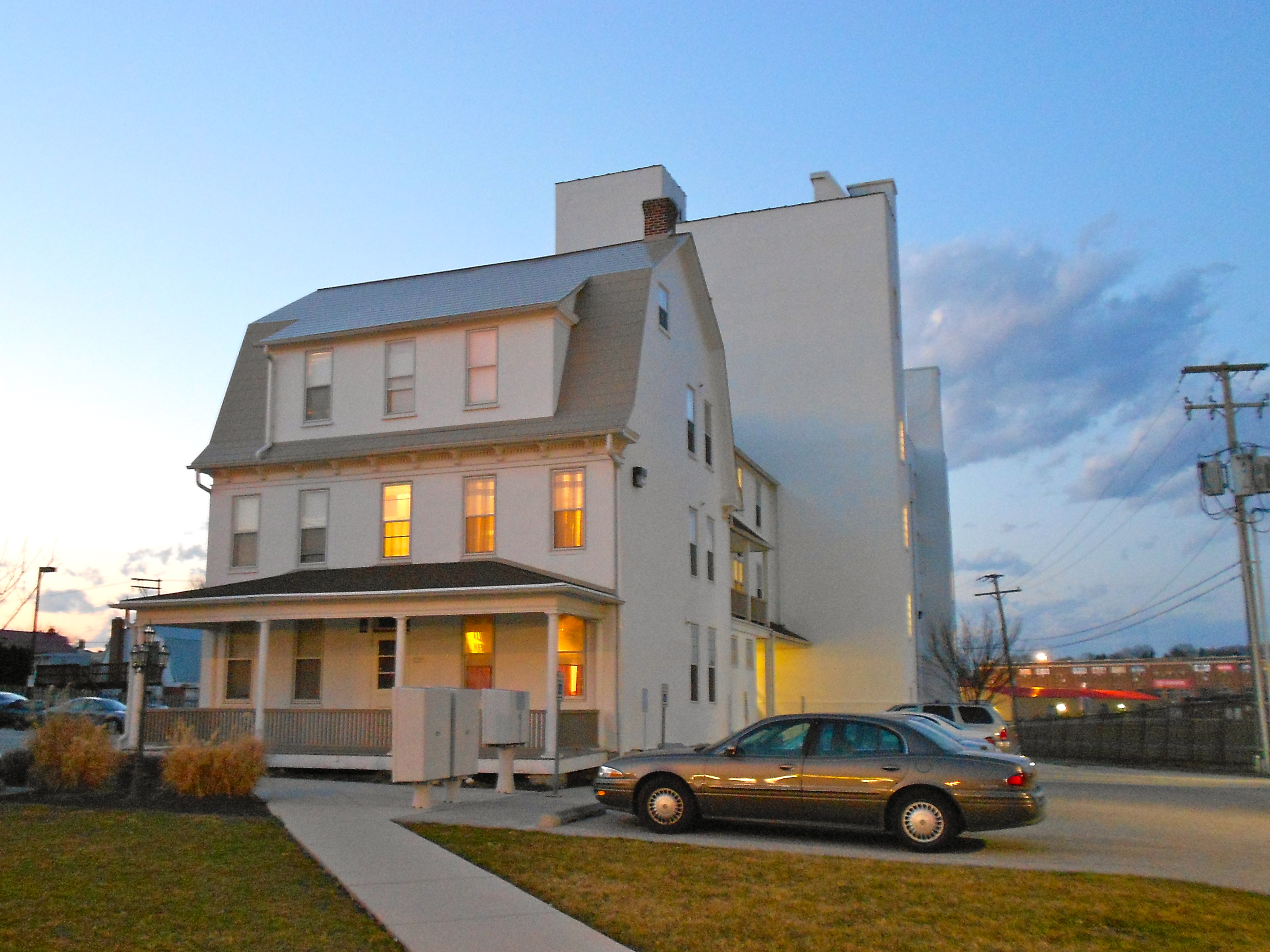 West Side Sanitarium on the NRHP since May 5, 2004. At 1253–1261 West Market Street, West York, Pennsylvania